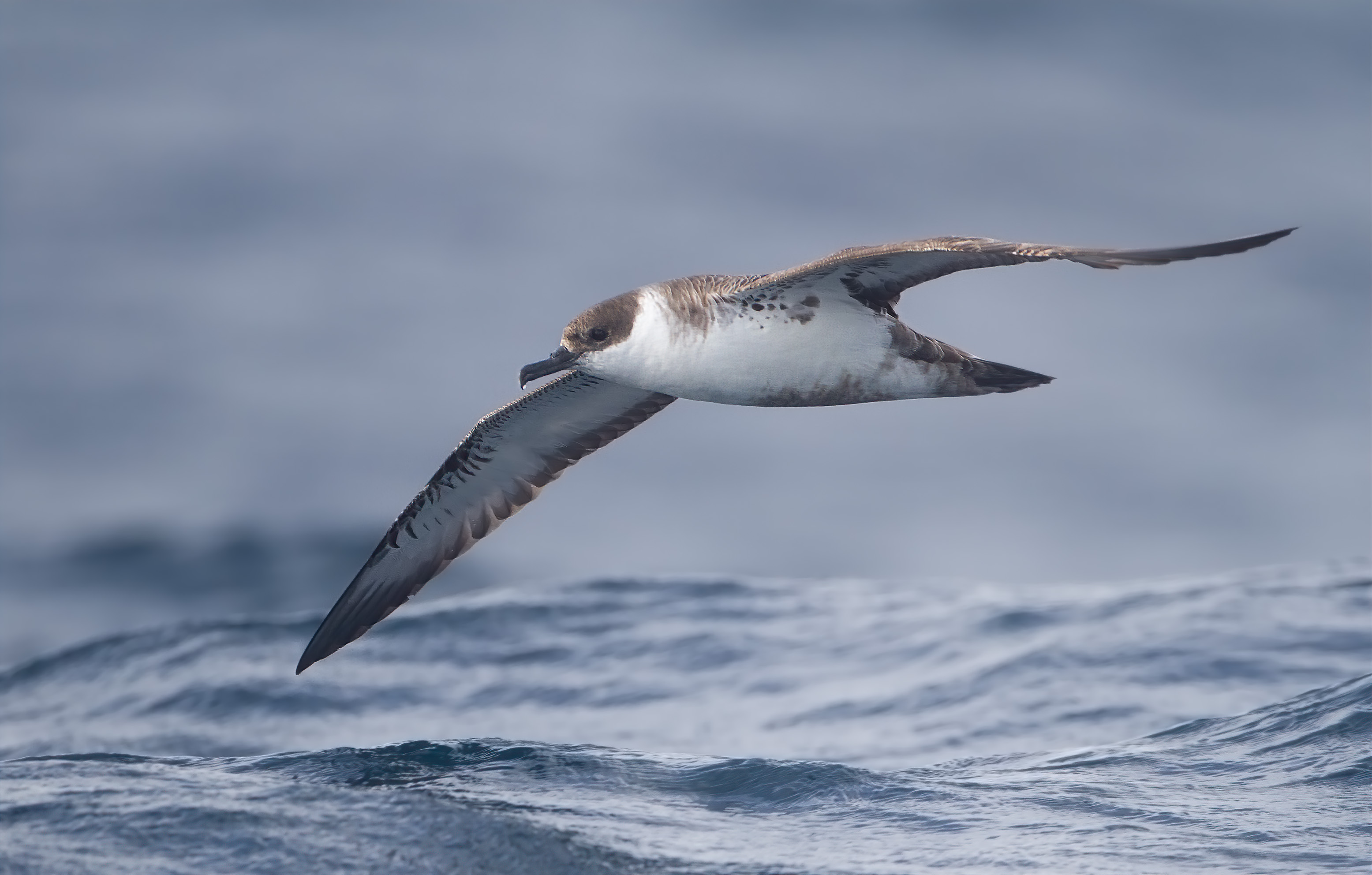 Great Shearwater (Puffinus gravis), East of the Tasman Peninsula, Tasmania, Australia